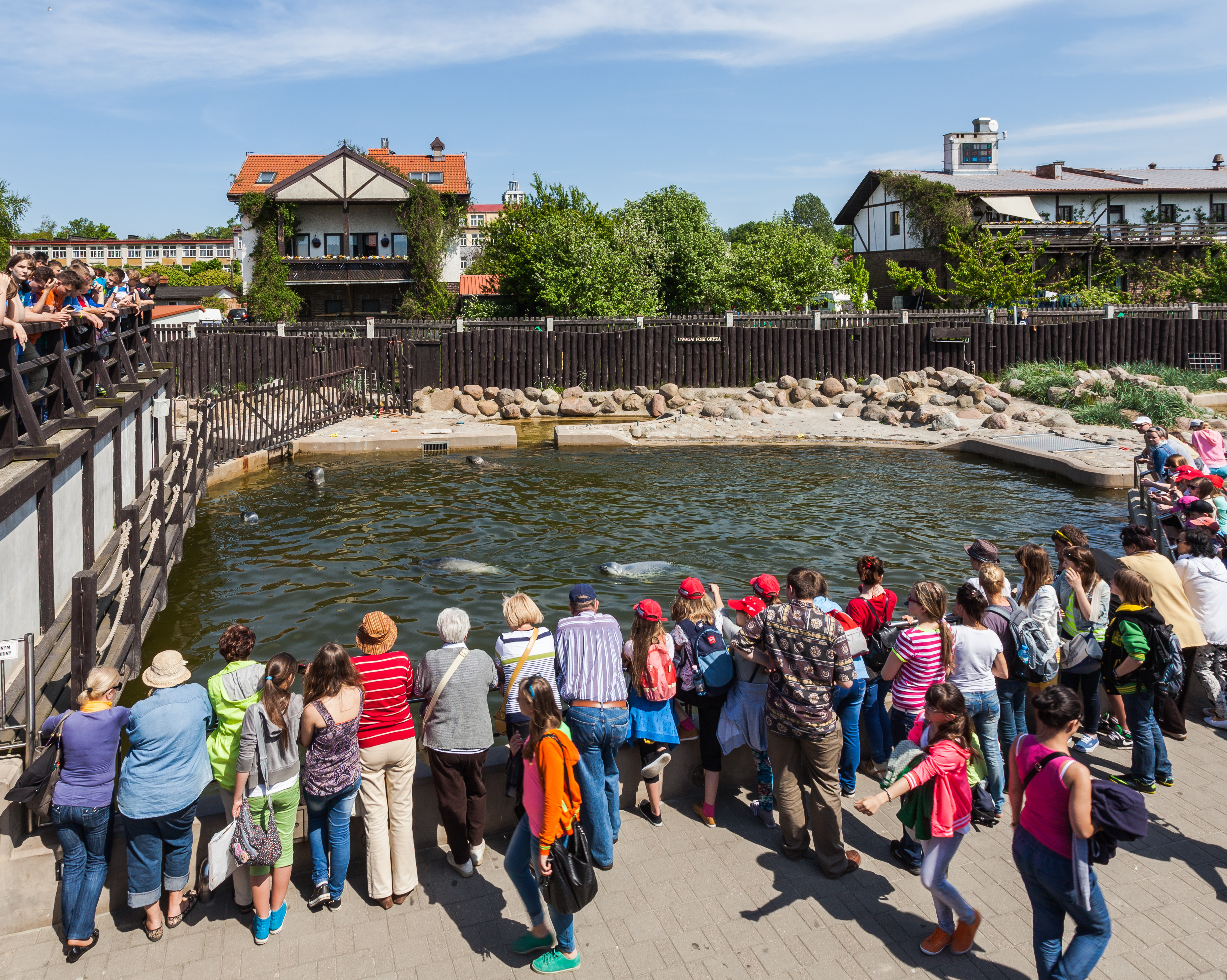 Focario de focas grises (Halichoerus grypus), Hel, Polonia